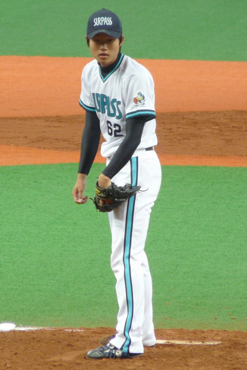 Masataka Yamazaki